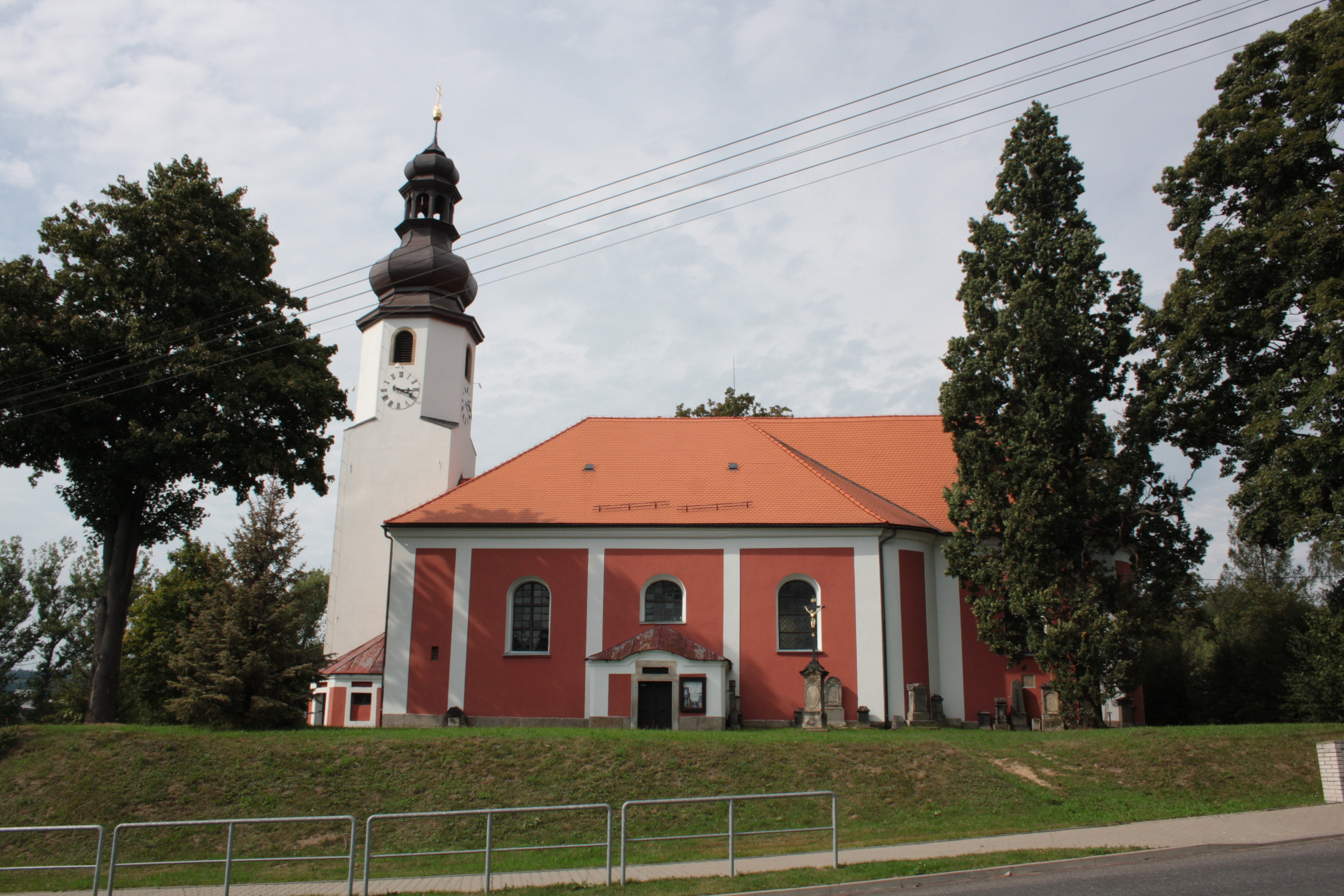 This photograph was taken with a DSLR from WMCZ's Camera grant. Kostel svatého Mikuláše v Mníšku.